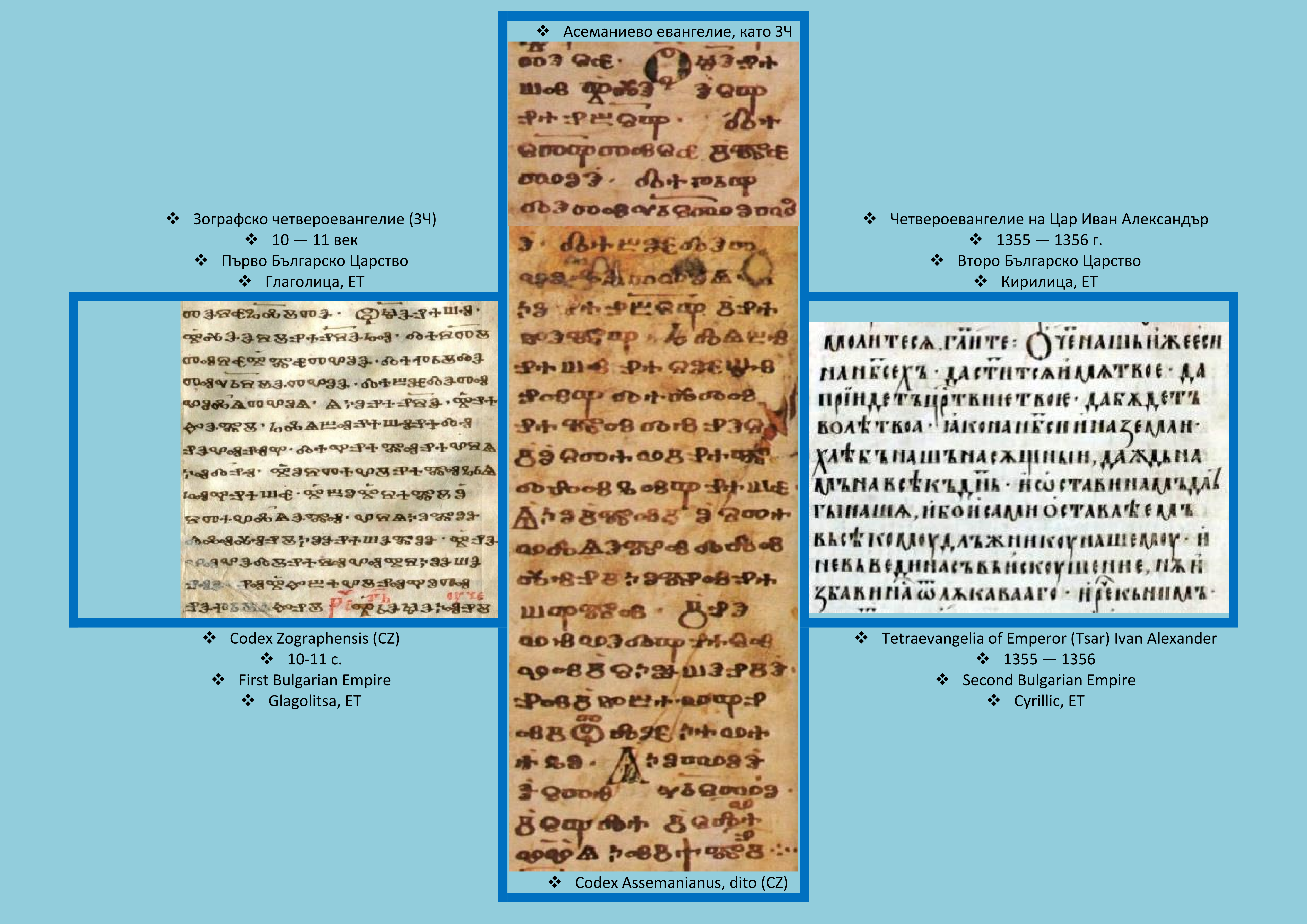 Lord's Prayer - the most famous prayer in the Christian world, in its original manuscript form: from Codex Assemanianus, 10 - 11 century, First Bulgarian Kingdom - in Glagolitza; from Codex Zographensis, 10 - 11 century, First Bulgarian Kingdom - in Glagolitza; from Tetraevangelia of Emperor (Tsar) Ivan Alexander, 1355 - 1356, Second Bulgarian Kingdom - in Cyrillic.